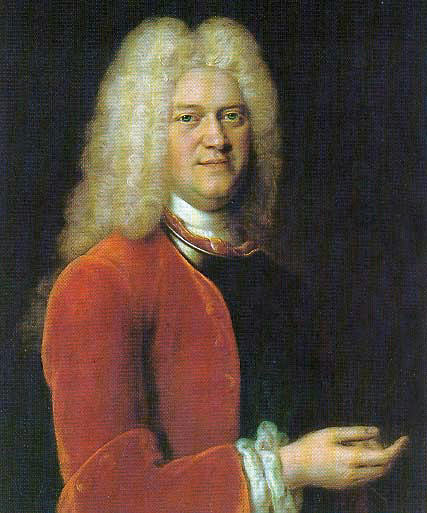 Portrait of Christian Ludwig II, Duke of Mecklenburg-Schwerin (1683-1756)